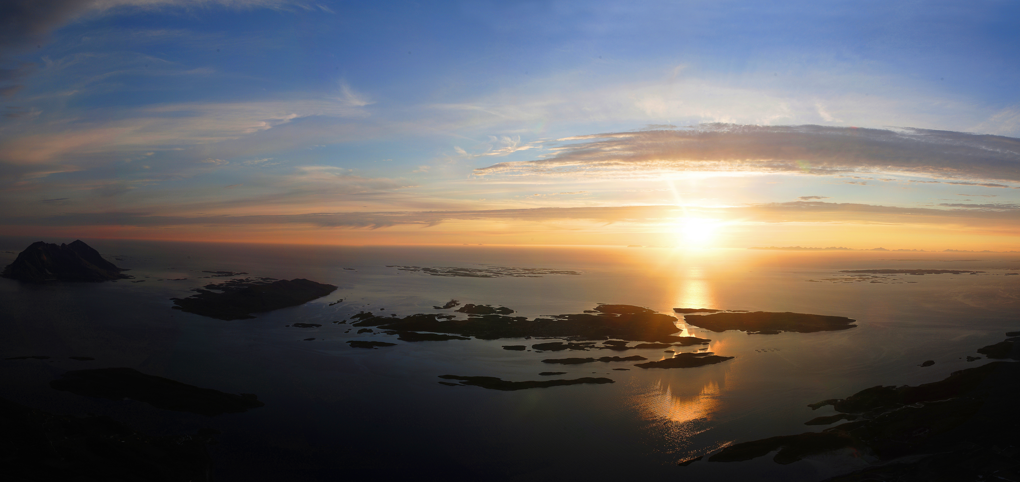 Viewing Sørarnøy, Fleinvær, Fugløy, Blixvær, from Sandhornøy